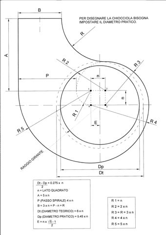 Chiocciola ventilatore